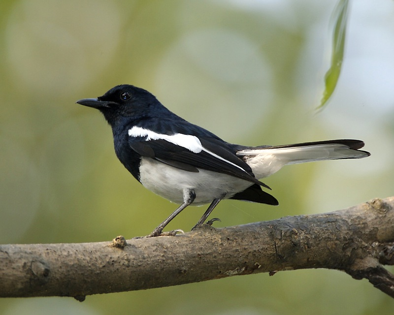 Oriental Magpie Robin (Copsychus saularis saularis) A male in a public park, Dhaka, Bangladesh on 1 May 2007.